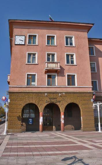 The building of Bobov dol Municipality